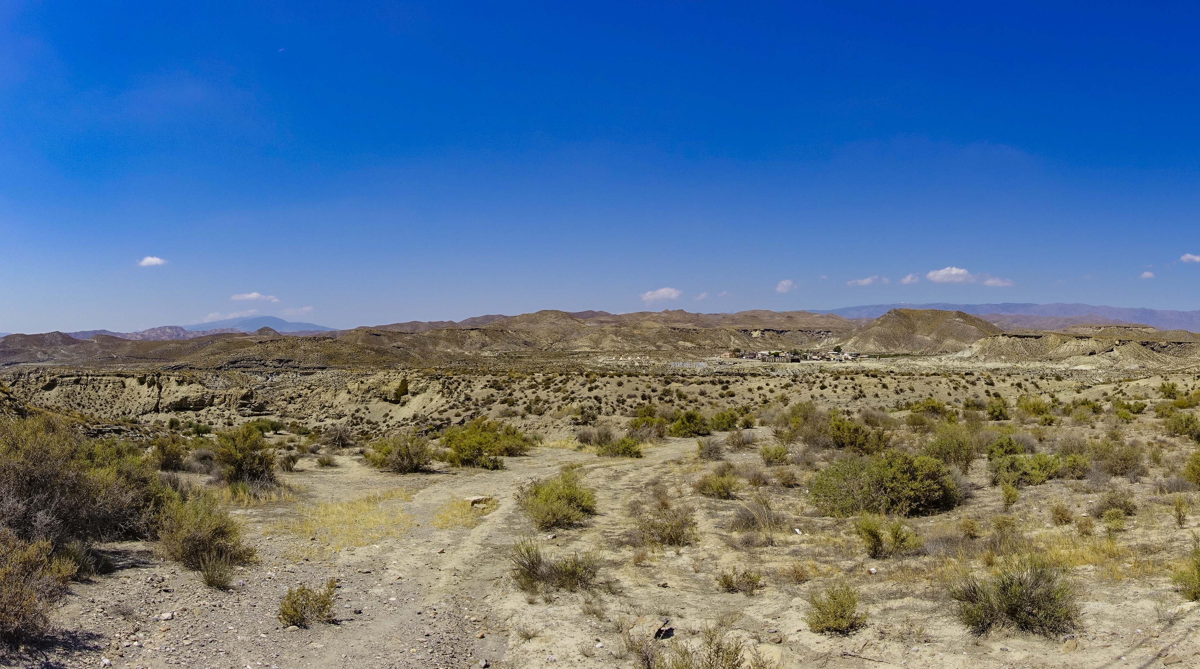 the desert of tabernas near almeria